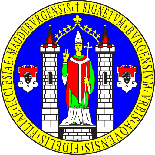 Seal of Aken (Elbe)